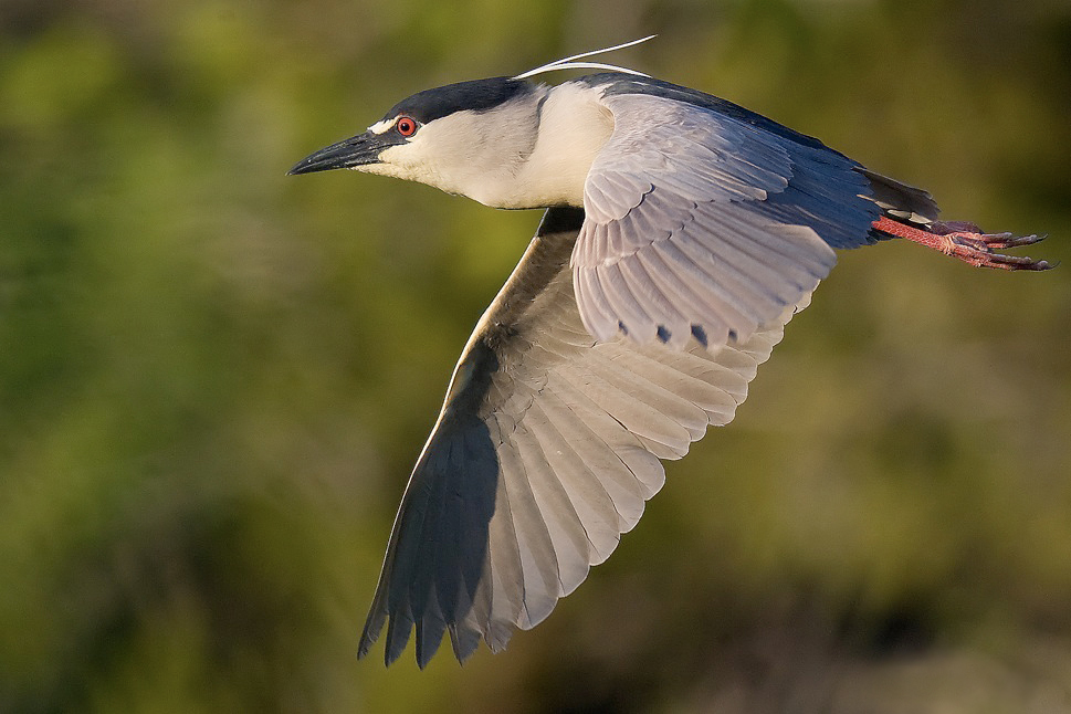 Nycticorax nycticorax hoactli, Venice Rookery, FL, USA